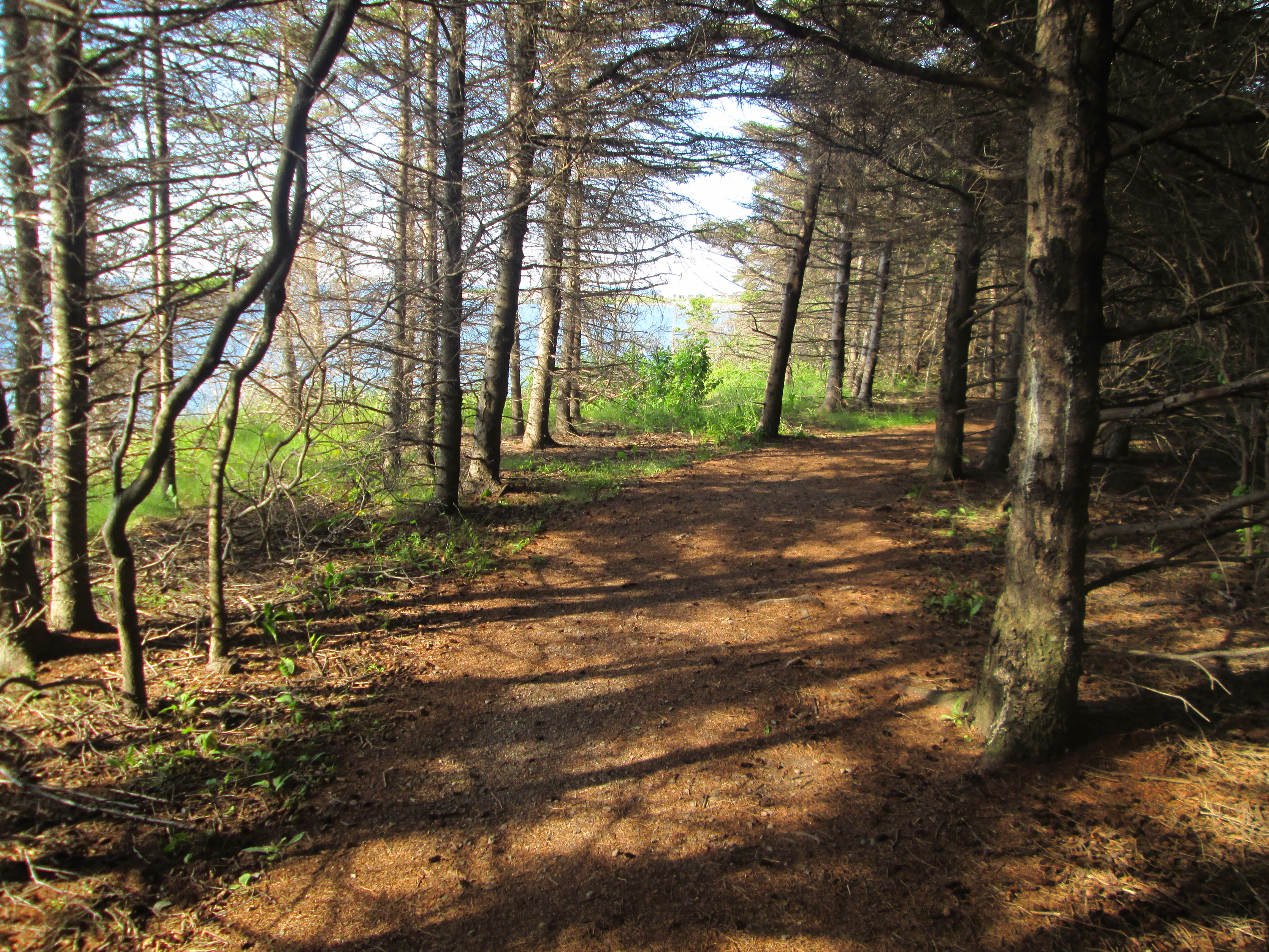 July 20, 2018